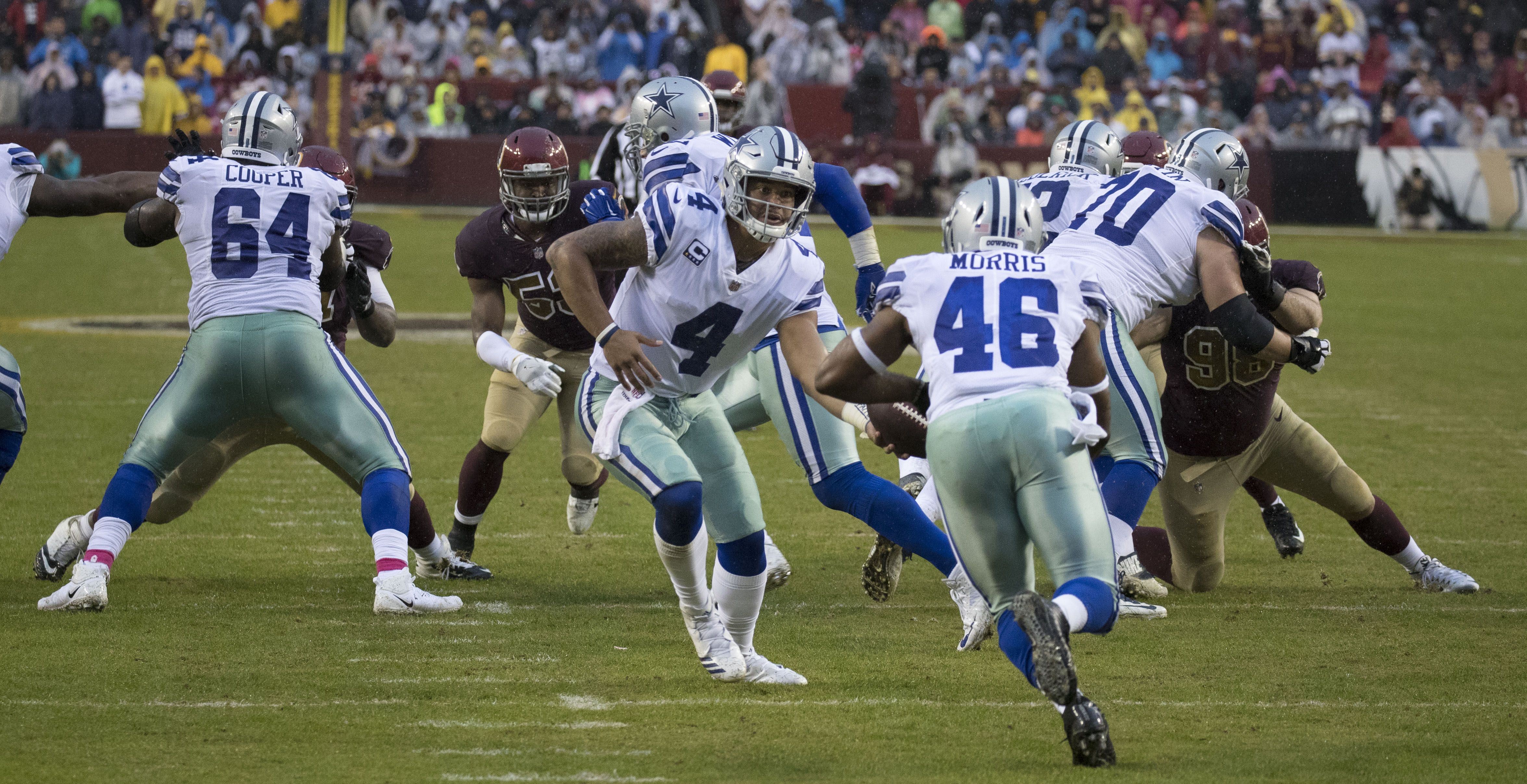 Cowboys at Redskins 10/29/17